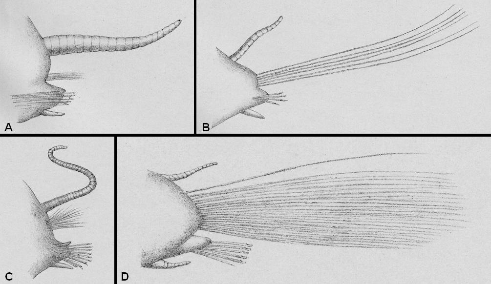 Parapodien mit Schwimmborsten epitoker Formen: (A) Typosyllis vittata. (B) T. armillaris. (C) T. prolifera. (D) Haplosyllis spongicola.